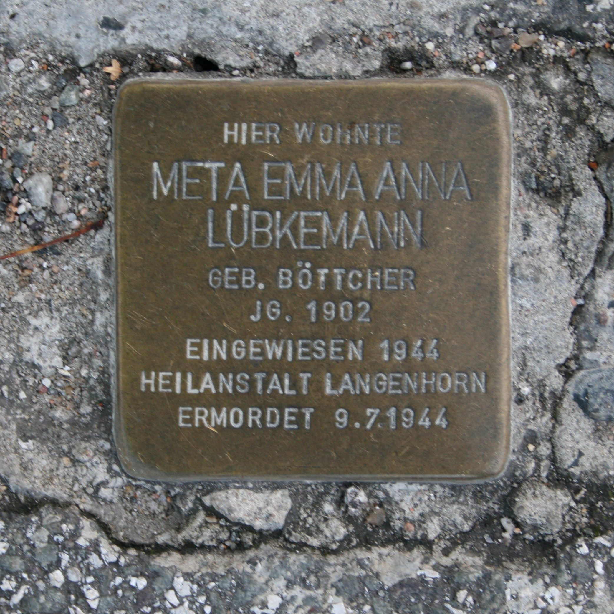 Stolperstein for Meta Emma Anna Lübkemann, Püttenhorst 82 in Hamburg-Bergedorf (Nettelnburg)